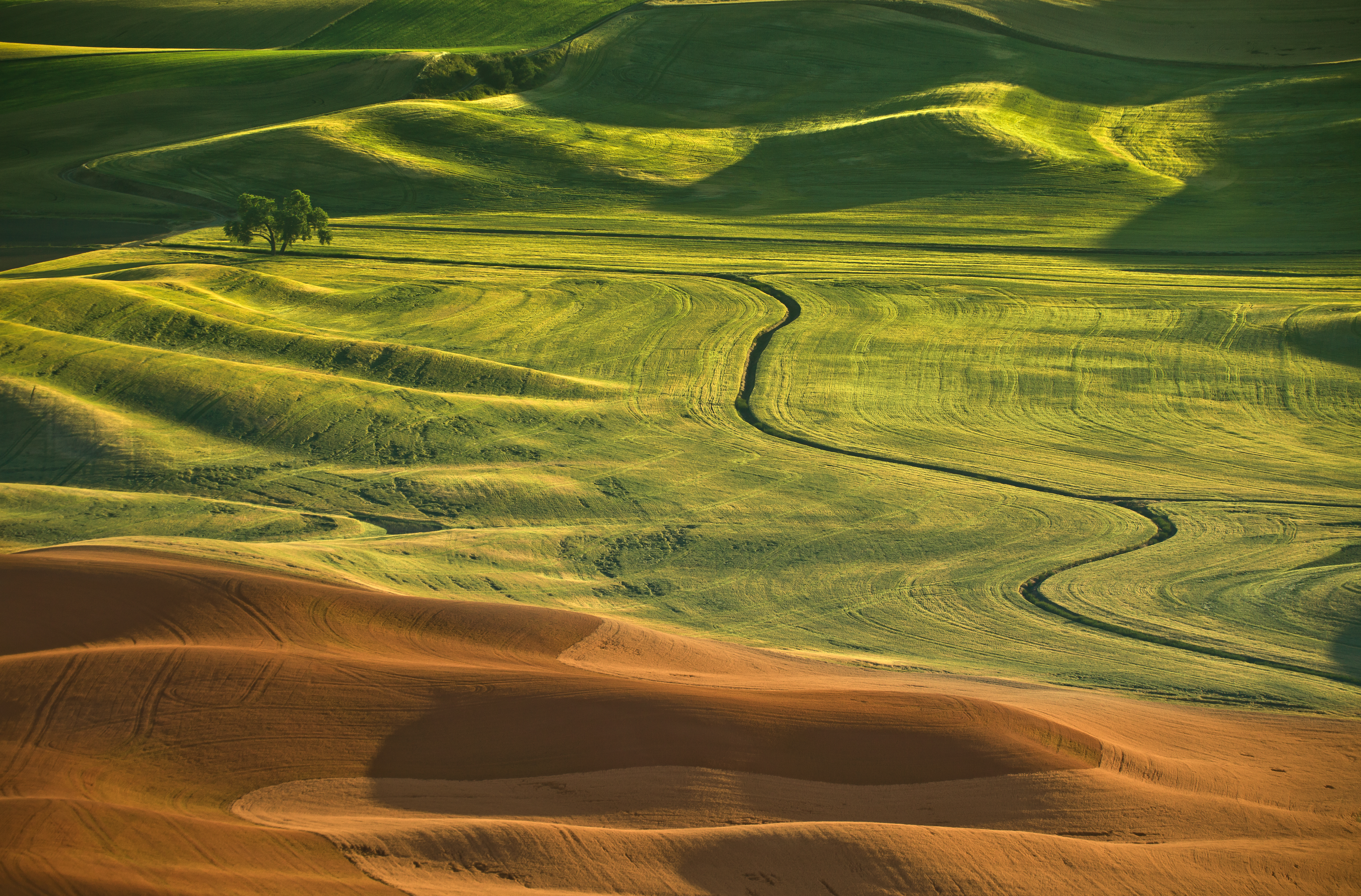 View from Steptoe Butte to Colfax area, place often called America Toscana